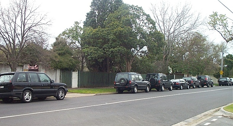 Four wheel drives ("Toorak Tractors") stretch as far as the eye can see. Kooyong Road, Toorak, 2000.